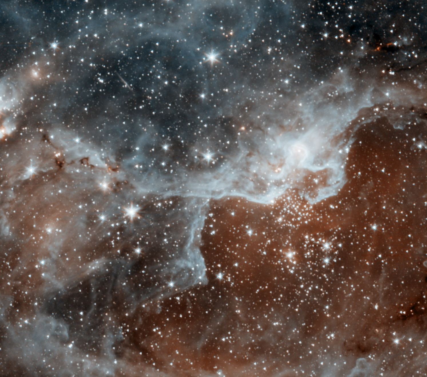 Region DR 22 (Cygnus)